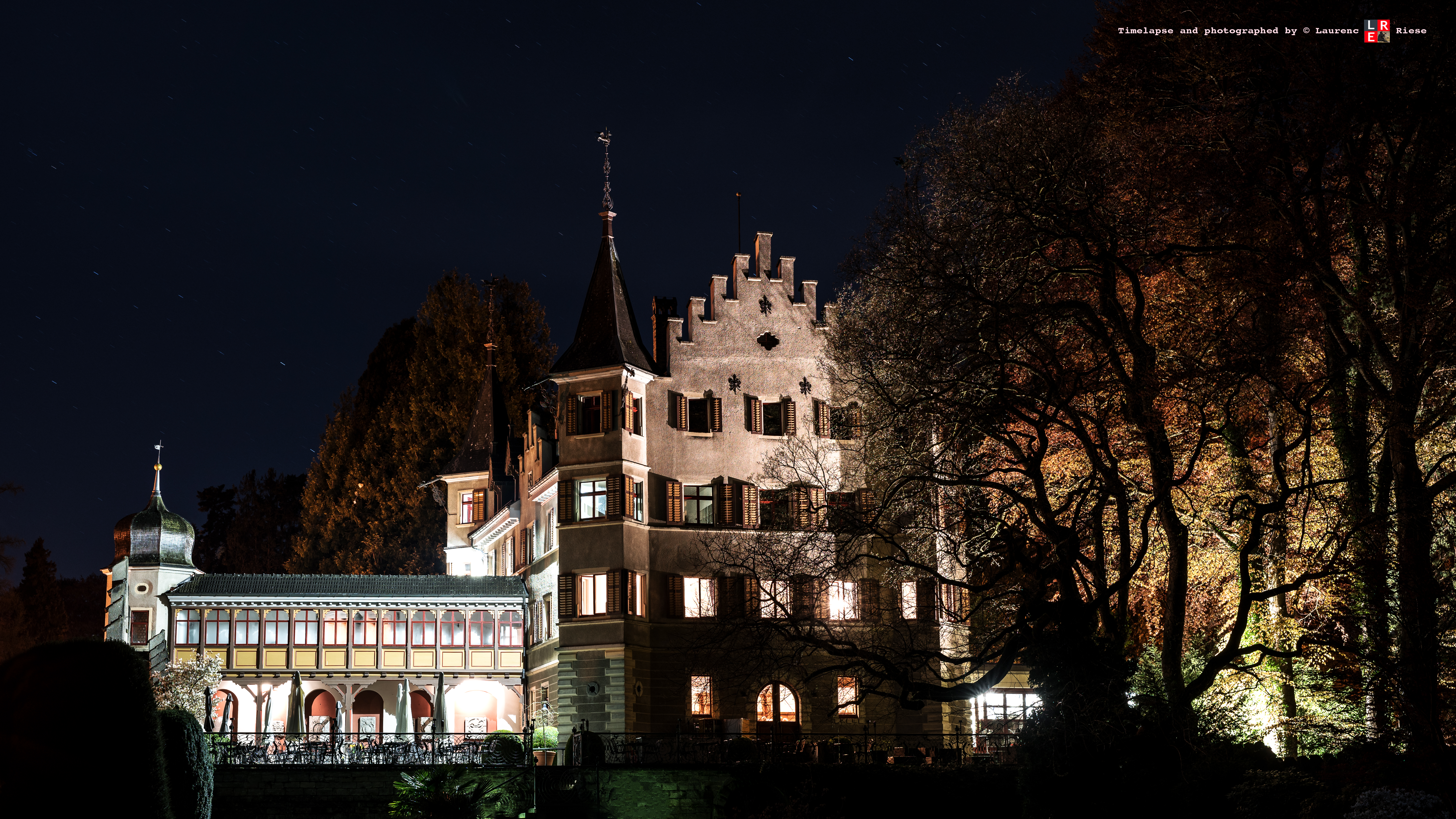 Schloss Seeburg in Kreuzlingen by Night